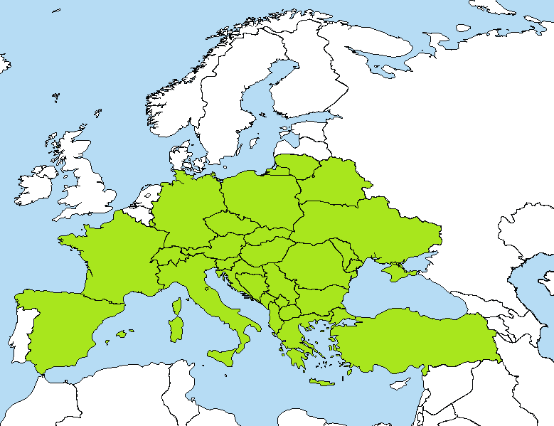 Cerambyx cerdo European distribution, based on